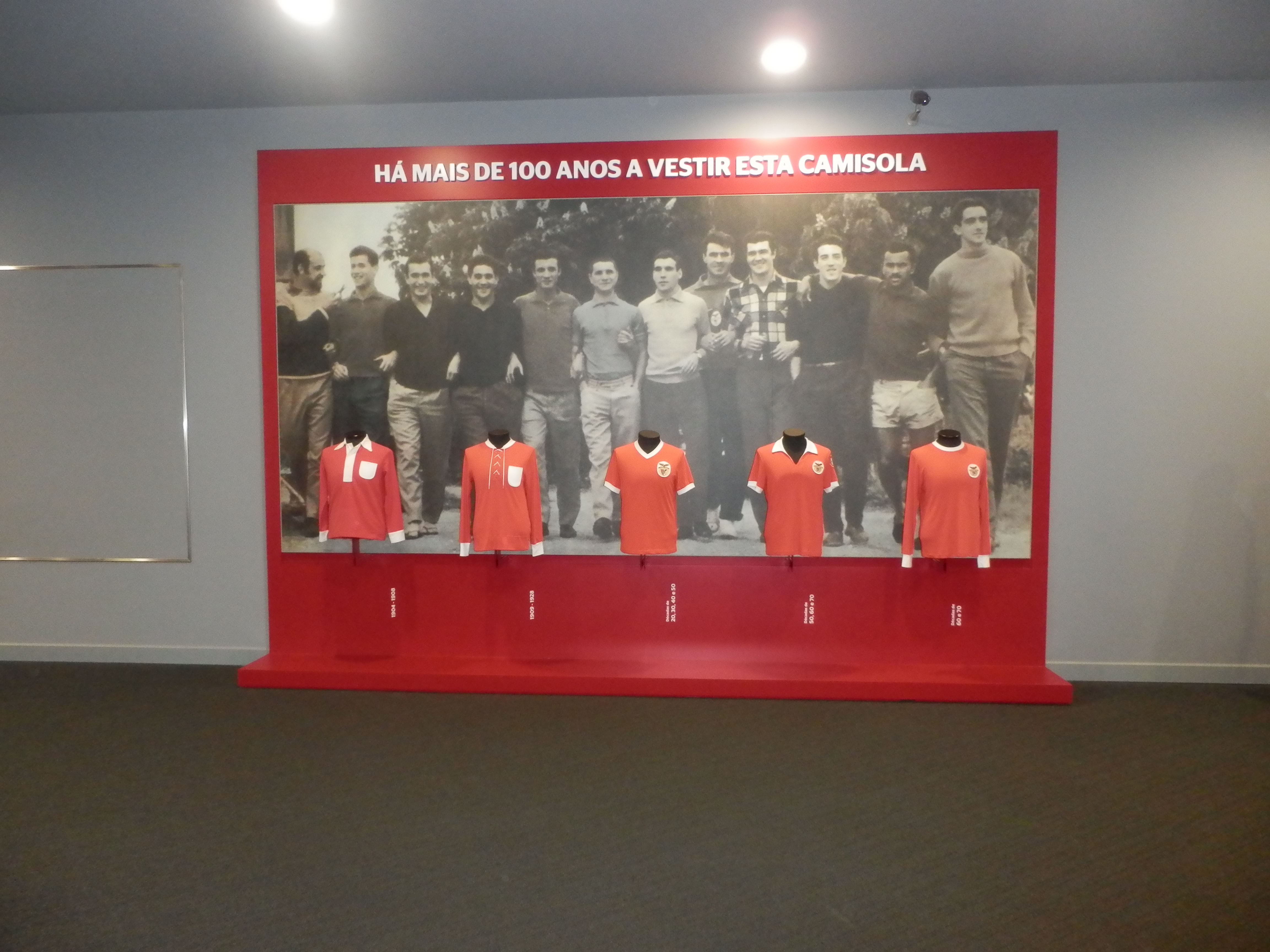 The evolution of the shirts until they started having sponsors